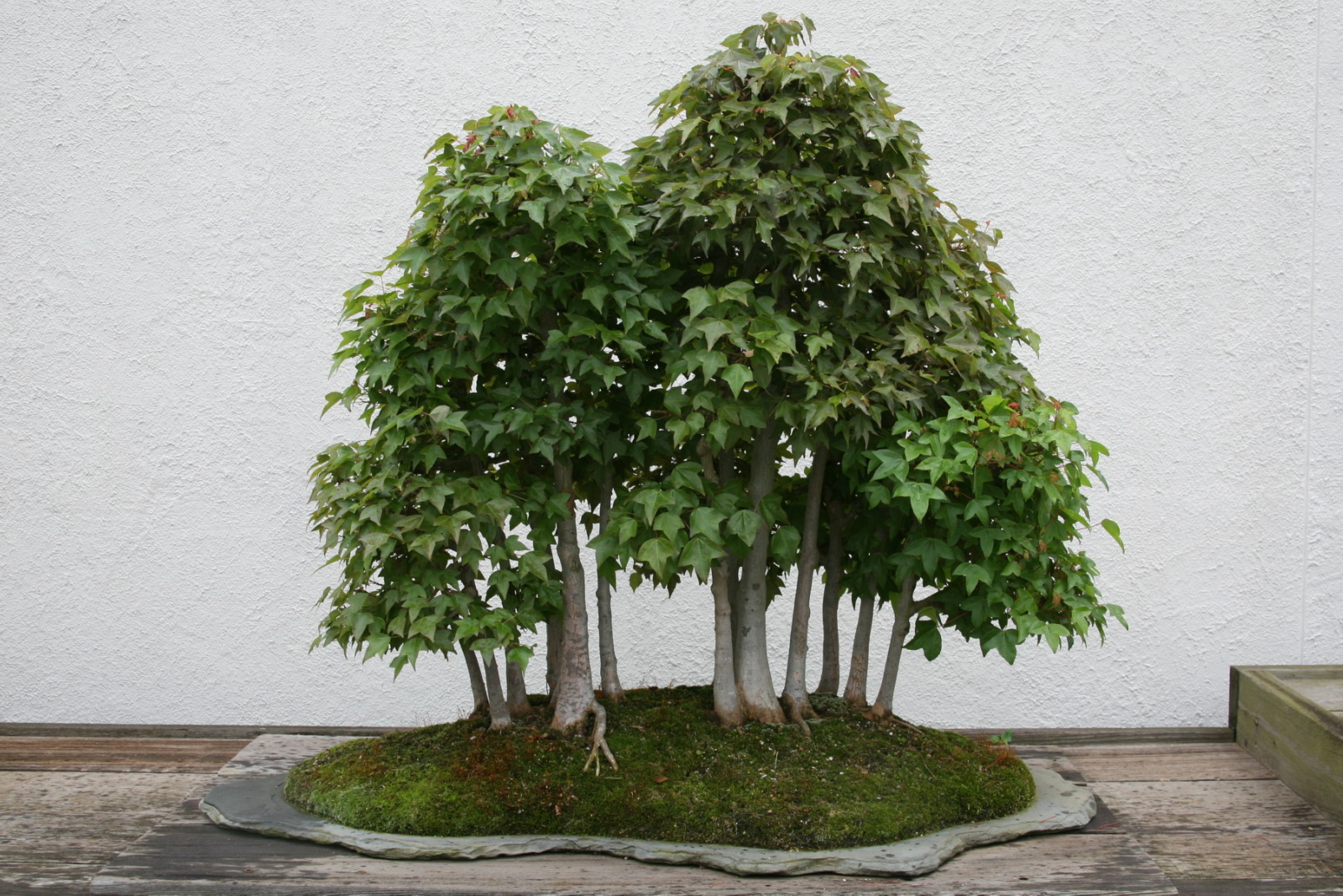 In training since 1985